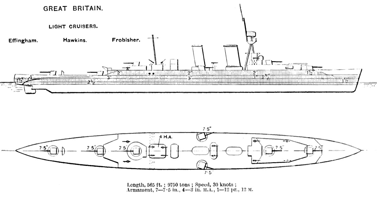 Right elevation and deck plan diagrams depicting British Hawkins class cruiser.